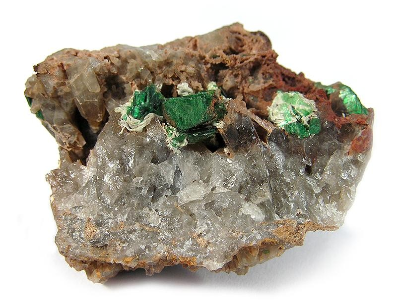 Volborthite Locality: Sofronovskii Cu Mine, Yugovskii Zavod, Perm', Permskaya Oblast', Middle Urals, Urals Region, Russia (Locality at ) This is a rare copper-vanadium oxide and represents one of just a handful of mineral species that contain the element vanadium as a primary constituent. Neon green, highly lustrous, crystals of volborthite, to .6 cm across, are nestled in a vug in the matrix. Named in 1837 after Alexander von Volborth (1800-1876), russian paleontologist. This is one of the finest specimens I have ever seen of the mineral, which is usually just a boring microcrysatllized crust underneath better copper minerals. The crystals here are sharply formed, and well-protected all these years. I believe this to be a rather significant specimen. 4.3 x 3.2 x 3.1 cm